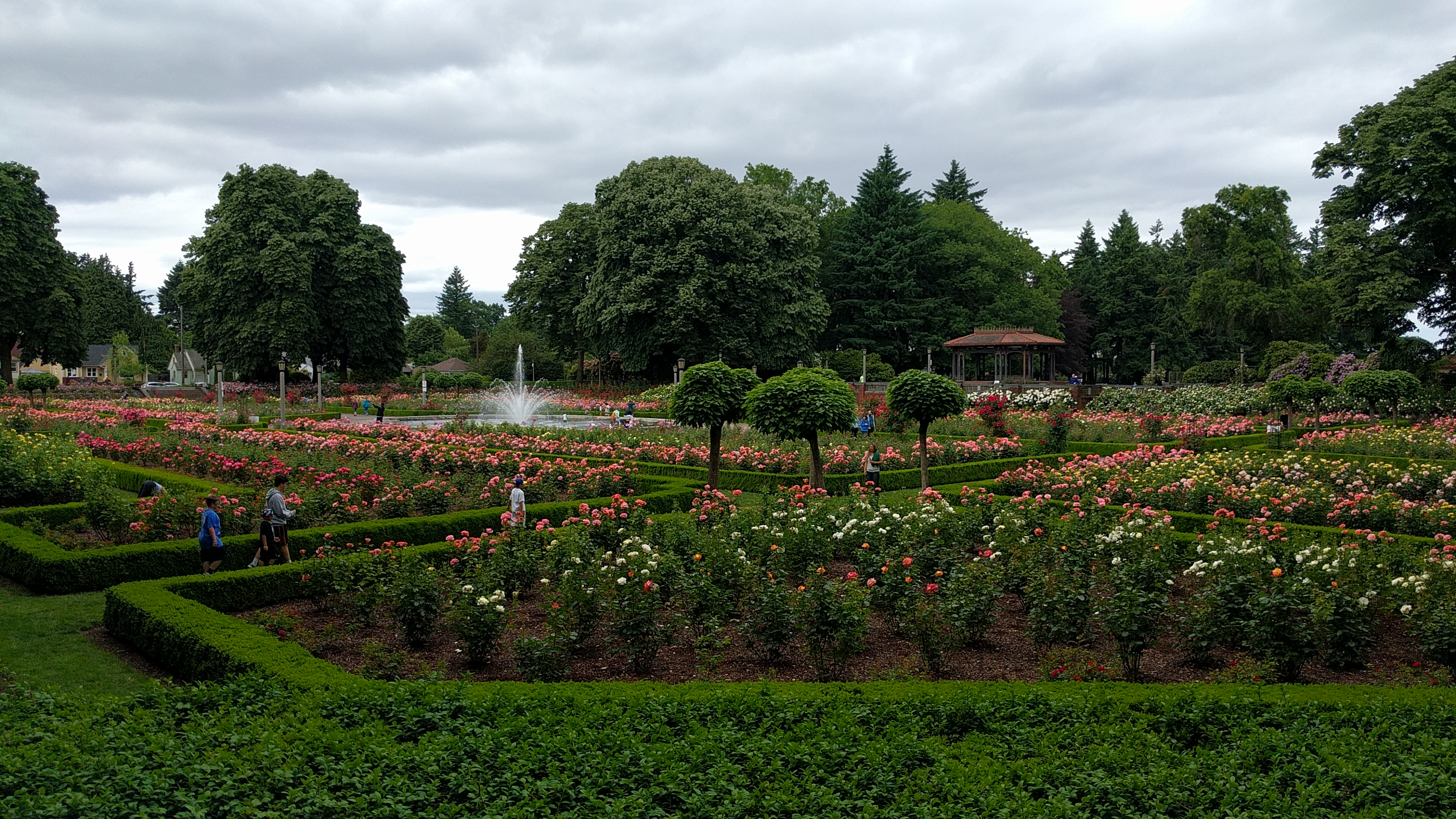 Peninsula Park rose garden in Portland, Oregon, June 2107